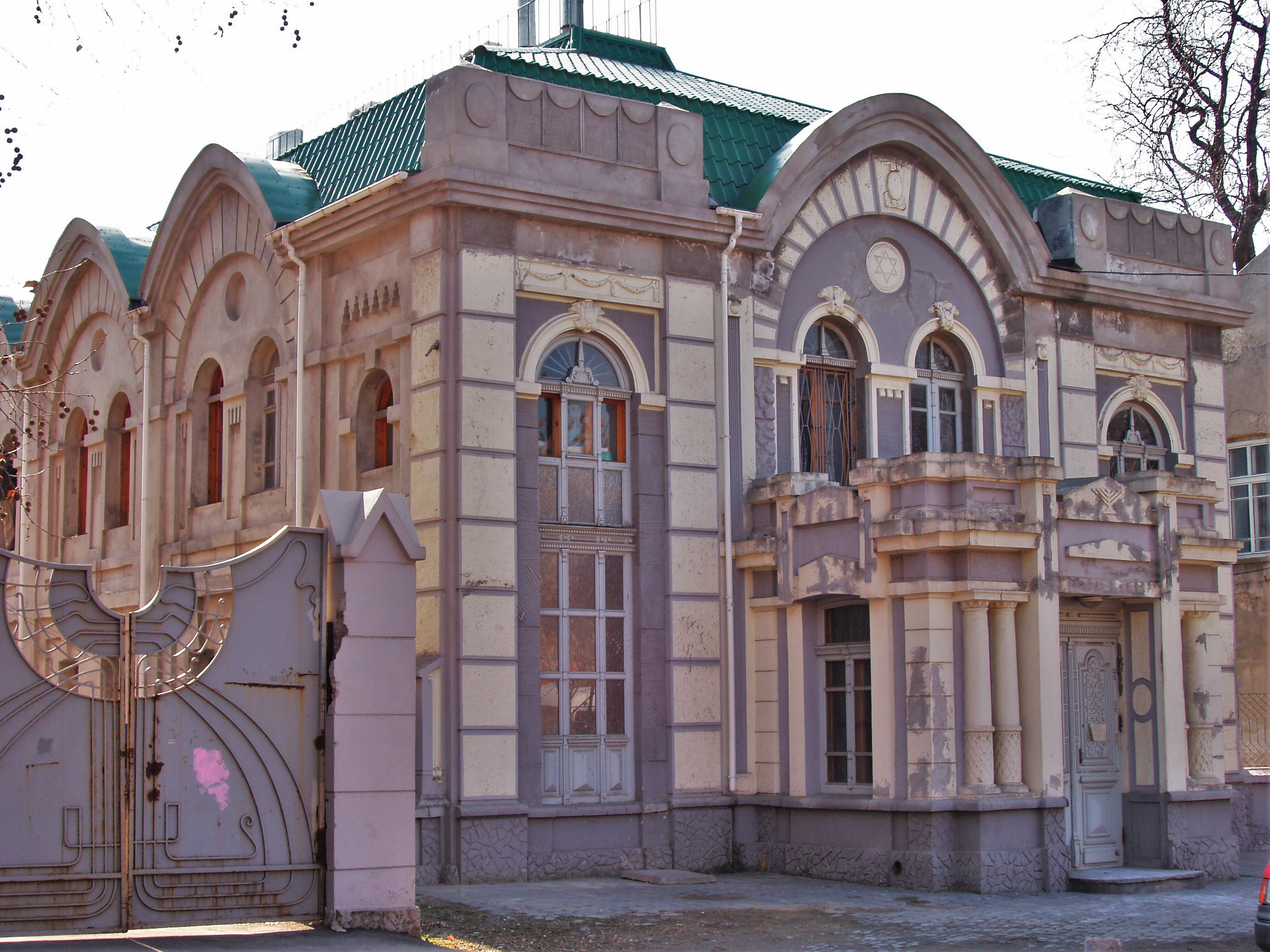 Kherson-Synagogue